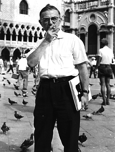 Jean-Paul Sartre in Venice, Italy (Jean-Paul Sartre a Venezia, Italia)